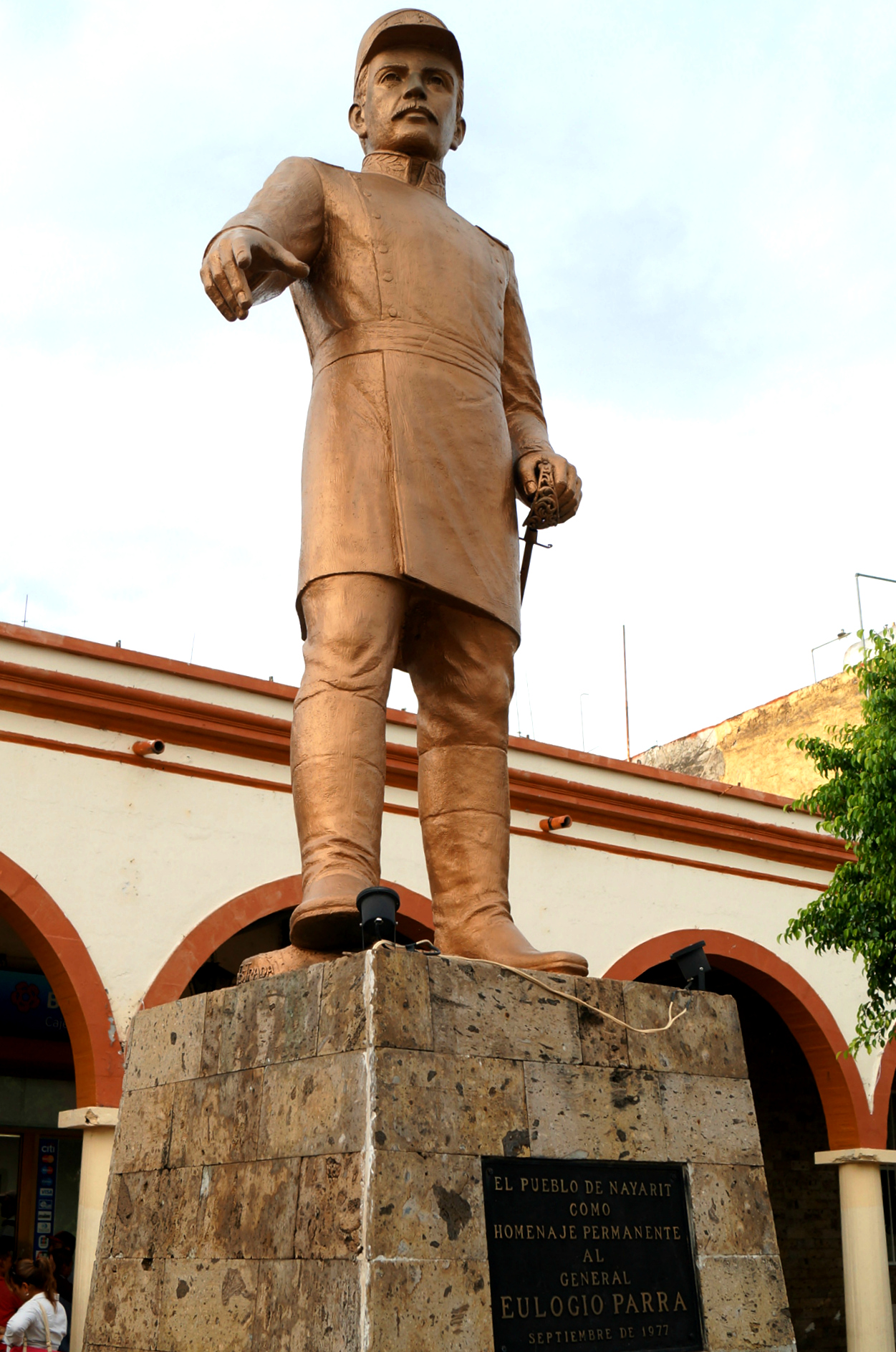 Estatua en el centro de la ciudad.